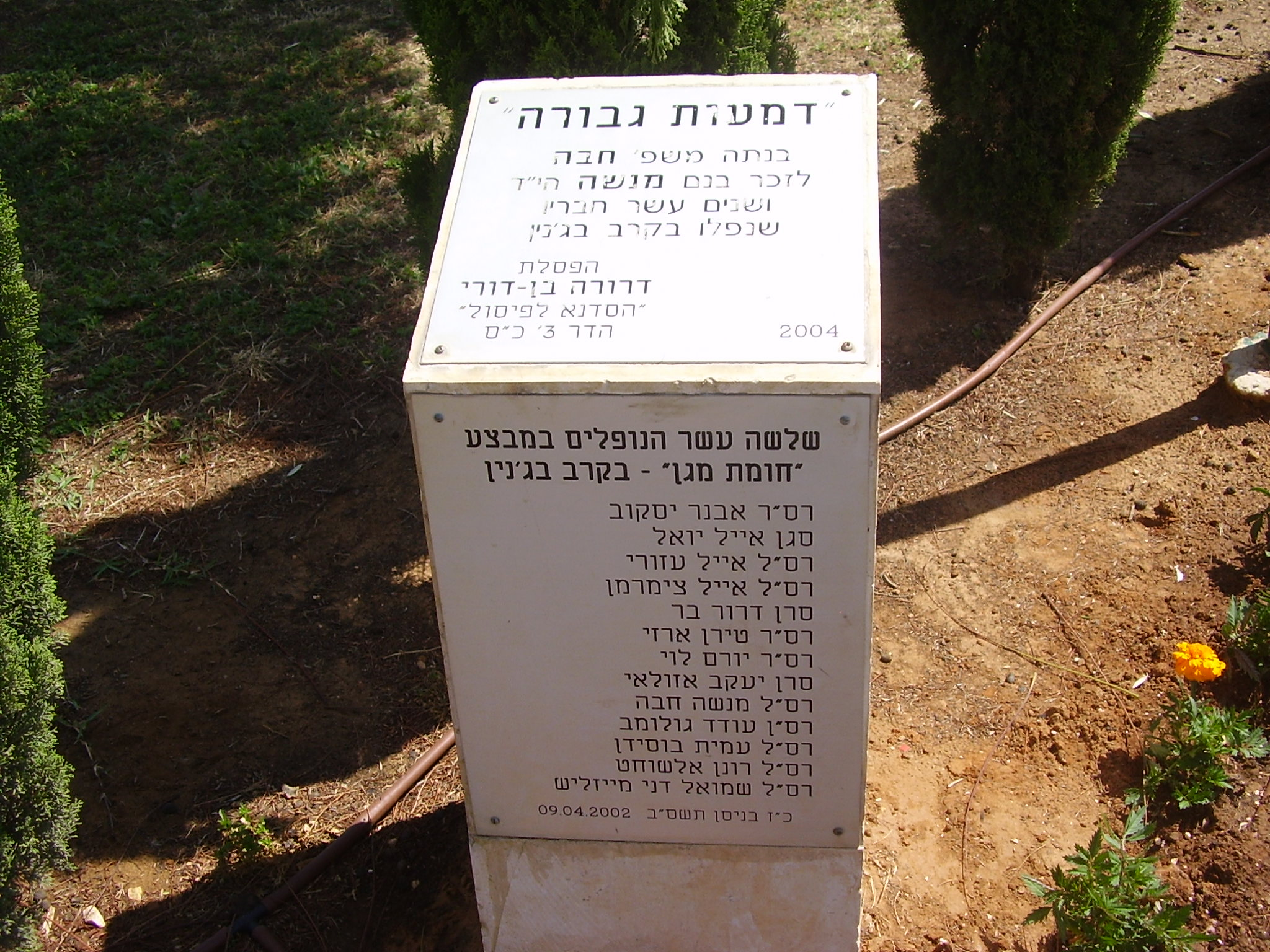 "Tears of Courage" Sculpture in Kfar-Saba, Israel